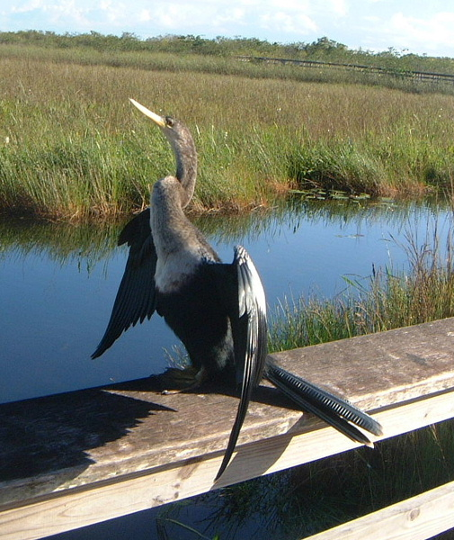 My image taken in Florida